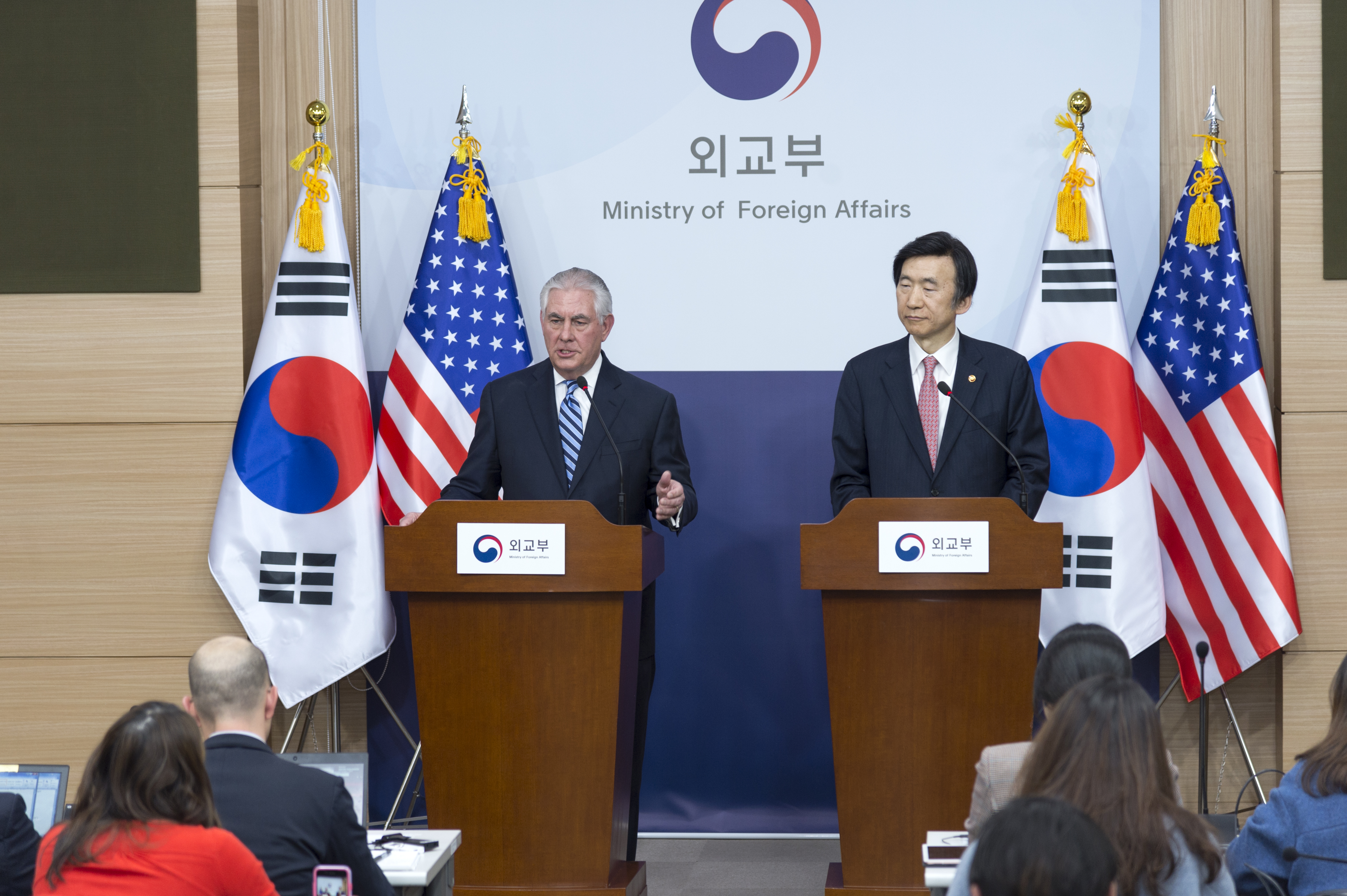 U.S. Secretary of State Rex Tillerson and South Korean Foreign Minister Yun Byung-se address reporters after their bilateral meeting at the Ministry of Foreign Affairs in Seoul, South Korea, on March 17, 2017. [State Department photo/ Public Domain]